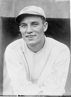 Photograph of Jimmy Smith